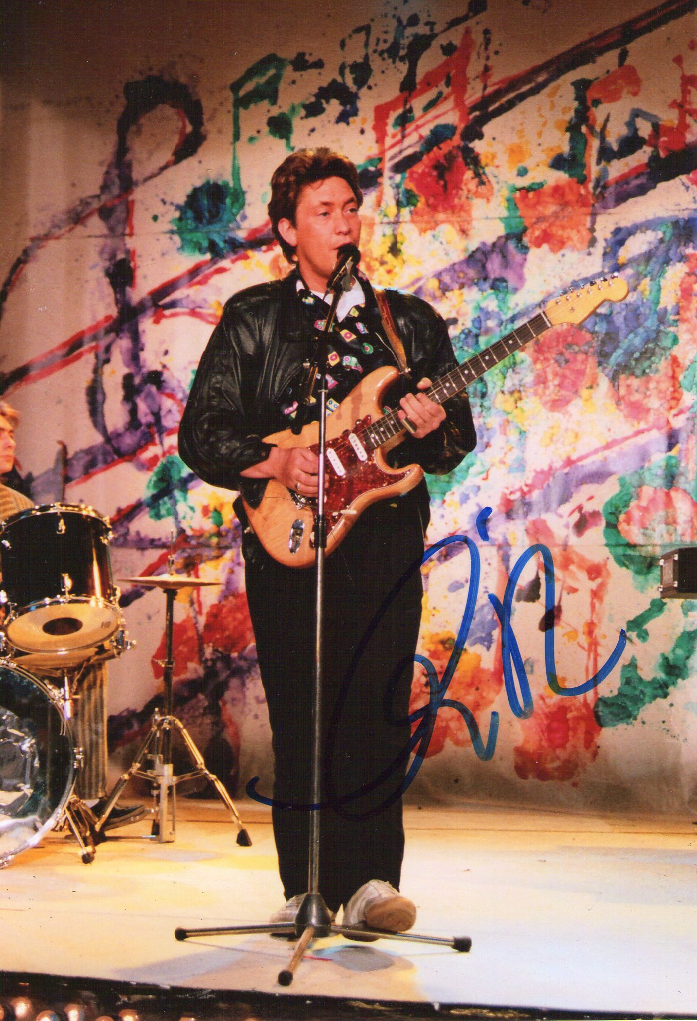 rare photo of Chris Rea taken at a concert